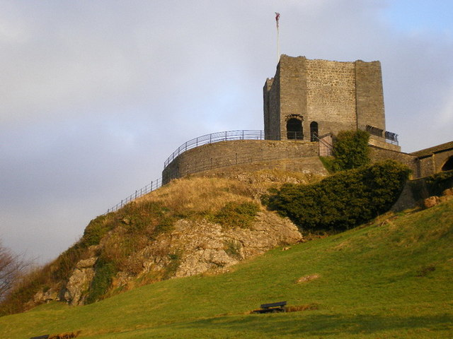 Clitheroe Castle The limestone knoll on which the castle stands has been cleared of trees over the last few years, in doing so the castle can be seen from around the Ribble Valley instead of a knoll covered in trees.